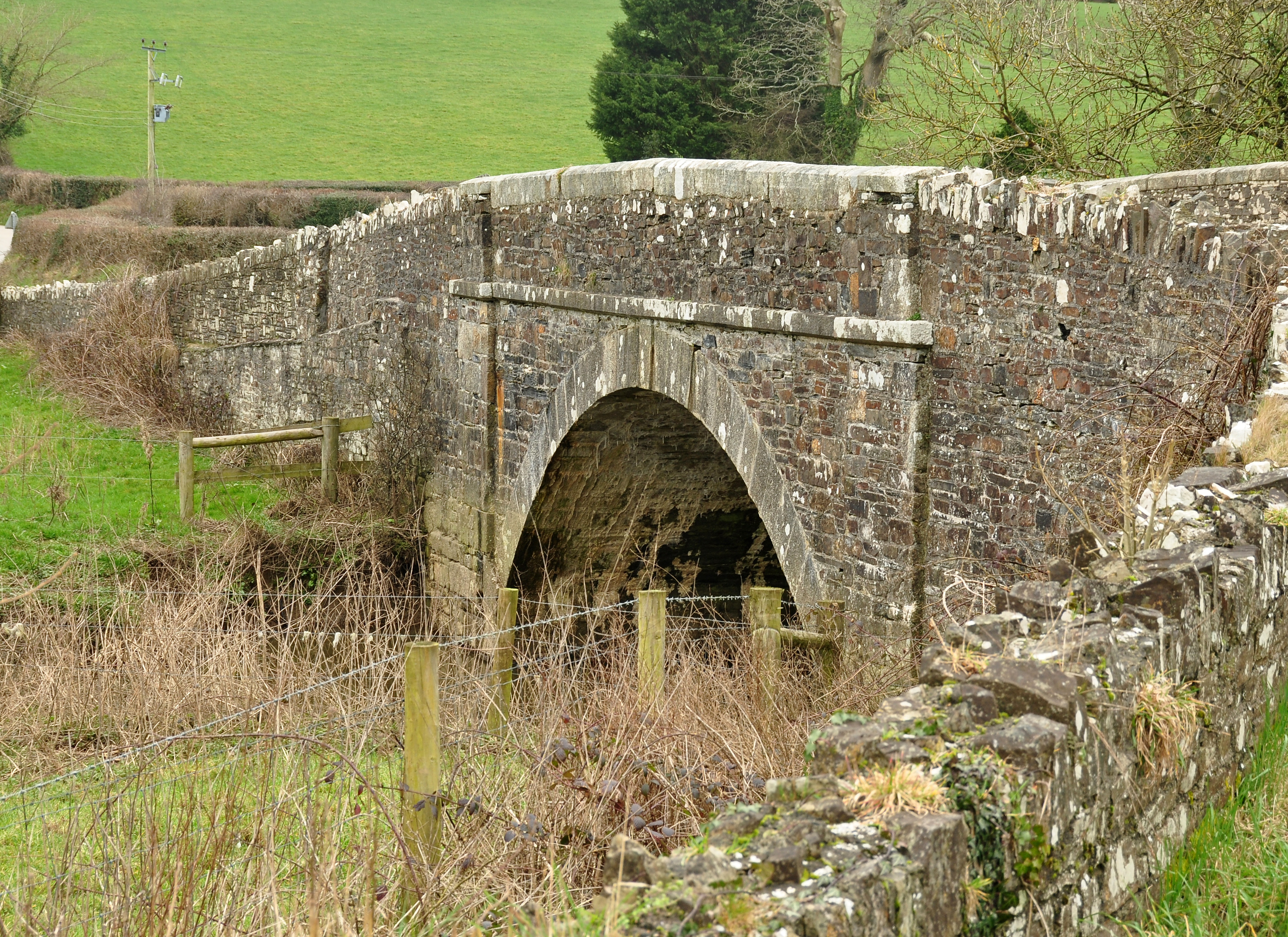 Tamerton Bridge, across the River Tamar, near North Tamerton, Cornwall.